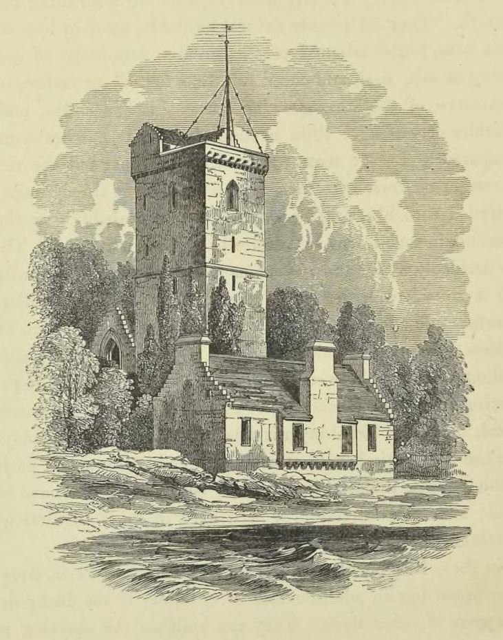 Dysart - Old House and Church Tower 1852